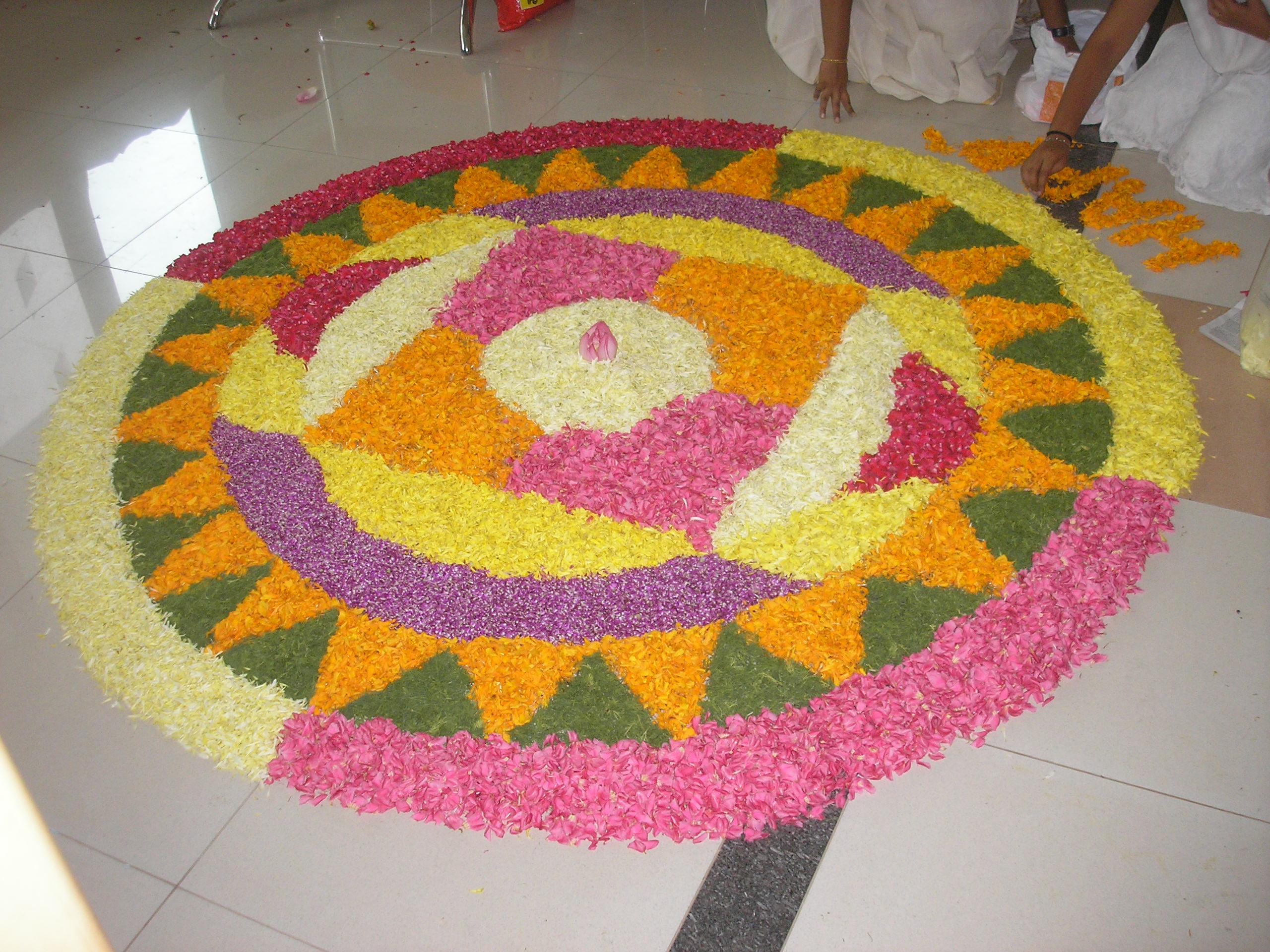 Pukallam